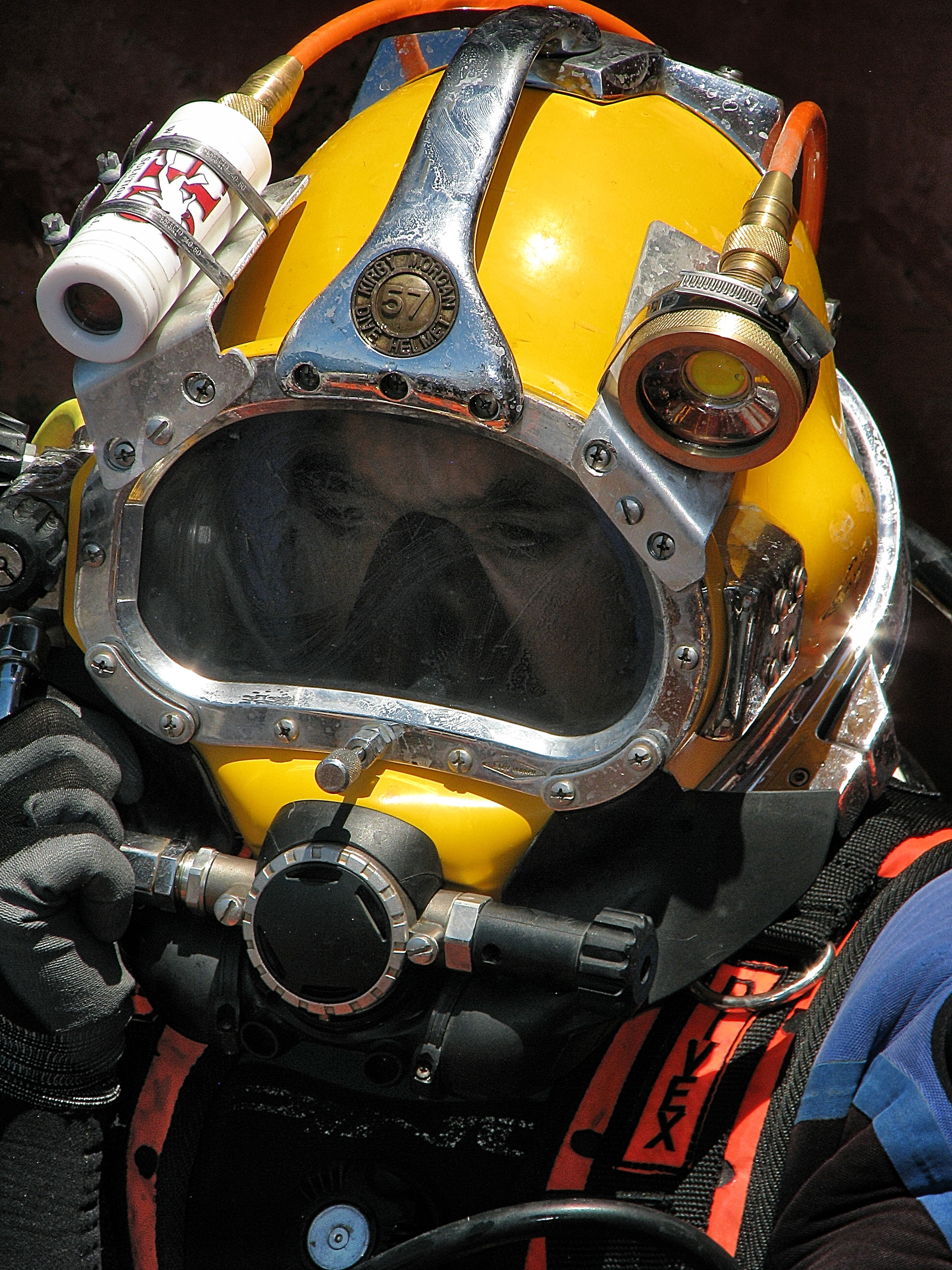 Diver equipped with diving helmet